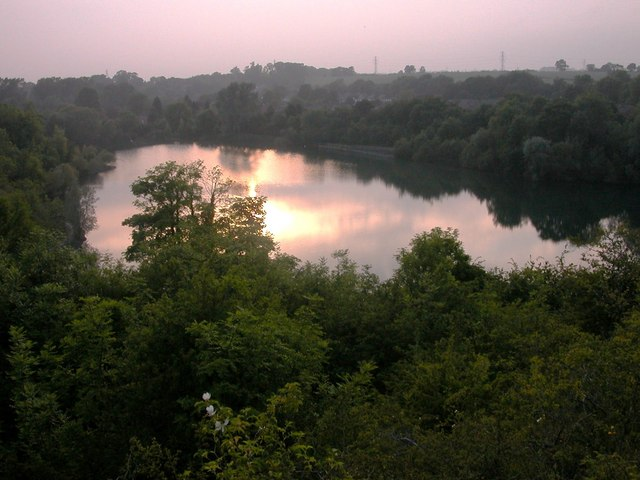 Newbold Quarry Park Sunset over the flooded quarry which is now a Nature Reserve.